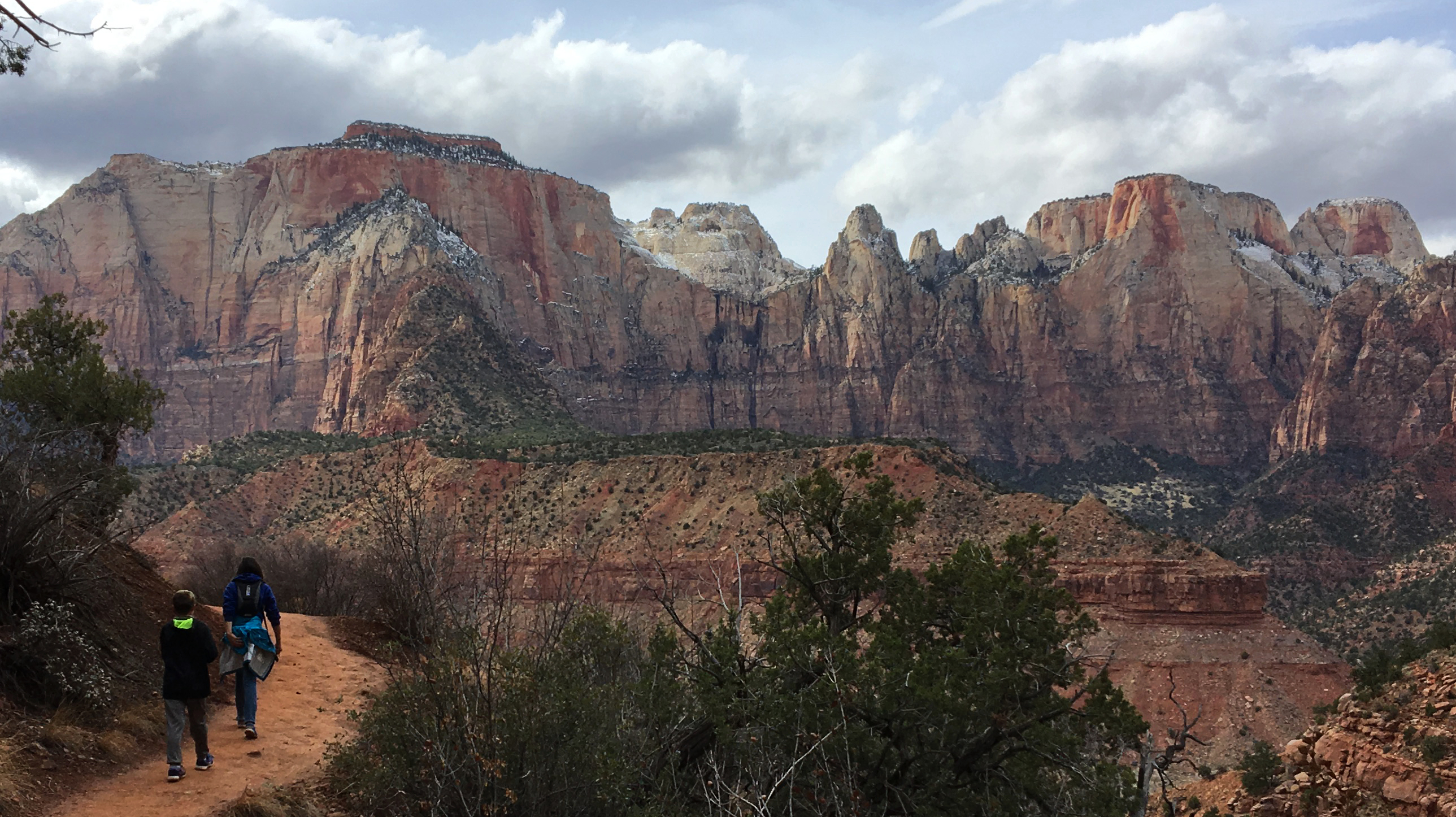 The West Temple (left) with the Towers of the Virgin